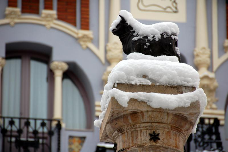 The little bull, Teruel's totem